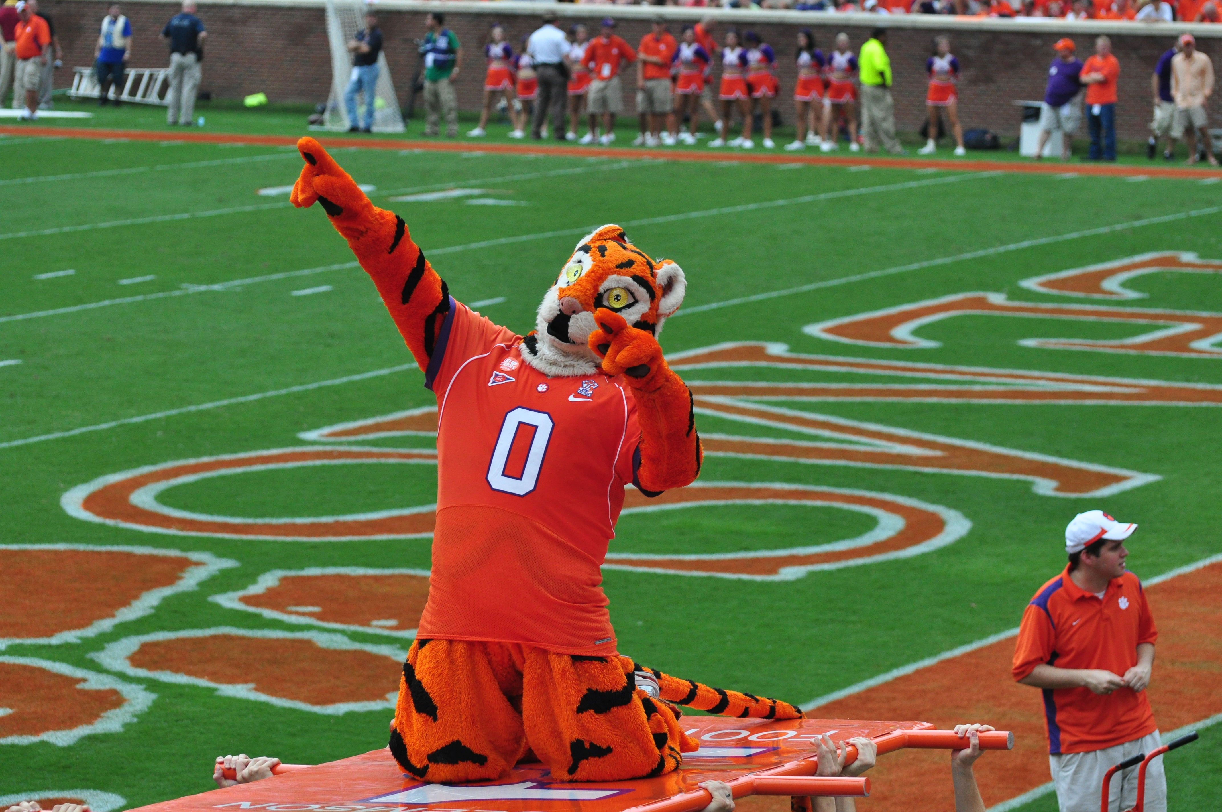 The Clemson Tiger mascot at the Clemson/Boston College game on September 19, 2009